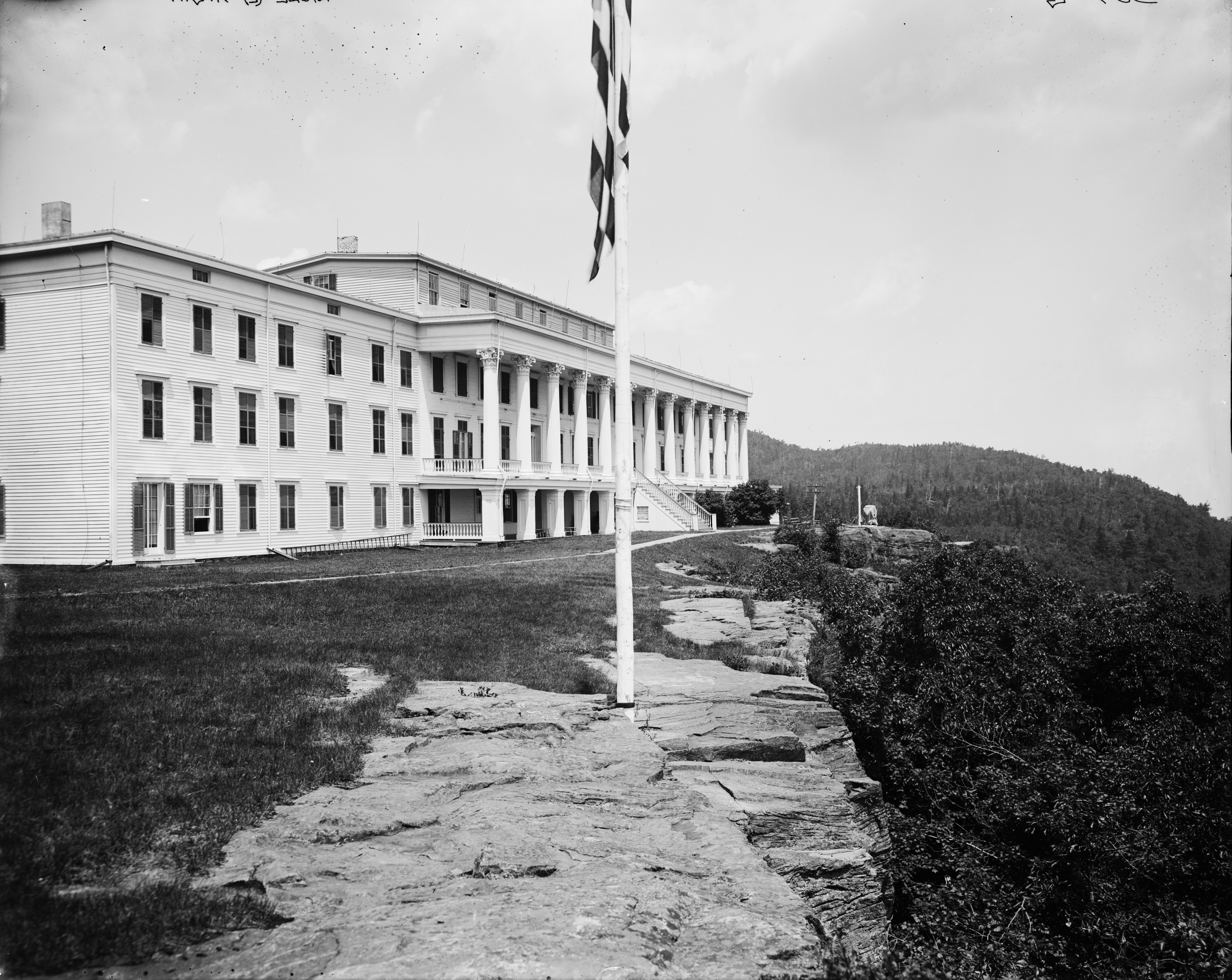 About this Item Title [Catskill Mts., Catskill Mountain House, New York] Contributor Names Detroit Publishing Co., publisher Created / Published [between 1900 and 1910] Subject Headings - Hotels - United States--New York (State)--Catskill Mountains Format Headings Dry plate negatives. Panoramic photographs. Genre Panoramic photographs Dry plate negatives Notes - Title from jacket. - Videodisc images are out of sequence; actual left to right order is 1A-18976, 18975. - "306 G" on left negative; "307 G" on right negative. - Detroit Publishing Co. no. 037032. - Gift; State Historical Society of Colorado; 1949. Medium 2 negatives : glass ; 8 x 10 in. Call Number/Physical Location LC-D4-37032 [P&P] Source Collection Detroit Publishing Company photograph collection (Library of Congress) Repository Library of Congress Prints and Photographs Division Washington, D.C. 20540 USA Digital Id det 4a18976 //hdl.loc.gov/loc.pnp/det.4a18975 det 4a18975 //hdl.loc.gov/loc.pnp/det.4a18975 Library of Congress Control Number 2016810546 Reproduction Number LC-DIG-det-4a18975 (digital file from original) LC-DIG-det-4a18976 (digital file from original) Rights Advisory No known restrictions on publication. Online Format image Description 2 negatives : glass ; 8 x 10 in. LCCN Permalink